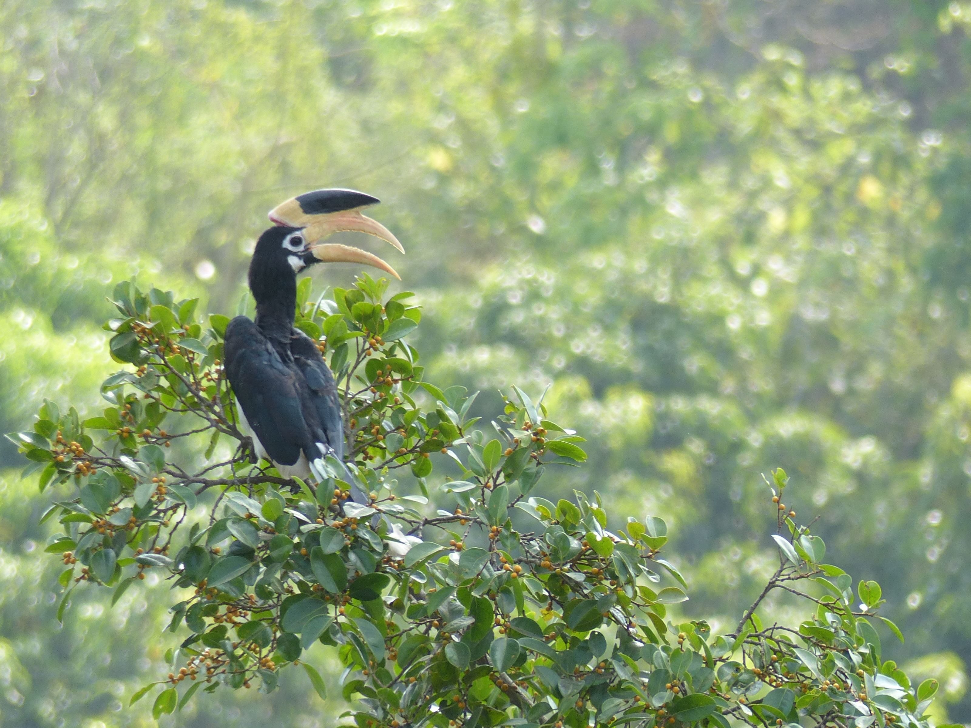 Malabar Pied Hornbill (Female) at Shenale Ghat, Mandangad, Maharashtra (part of Sahyadri ranges, Western Ghats).